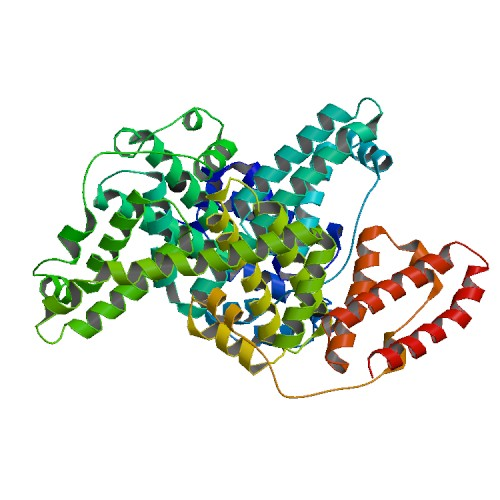 Source: RCSB PDB. The contents of PDB are in the public domain.